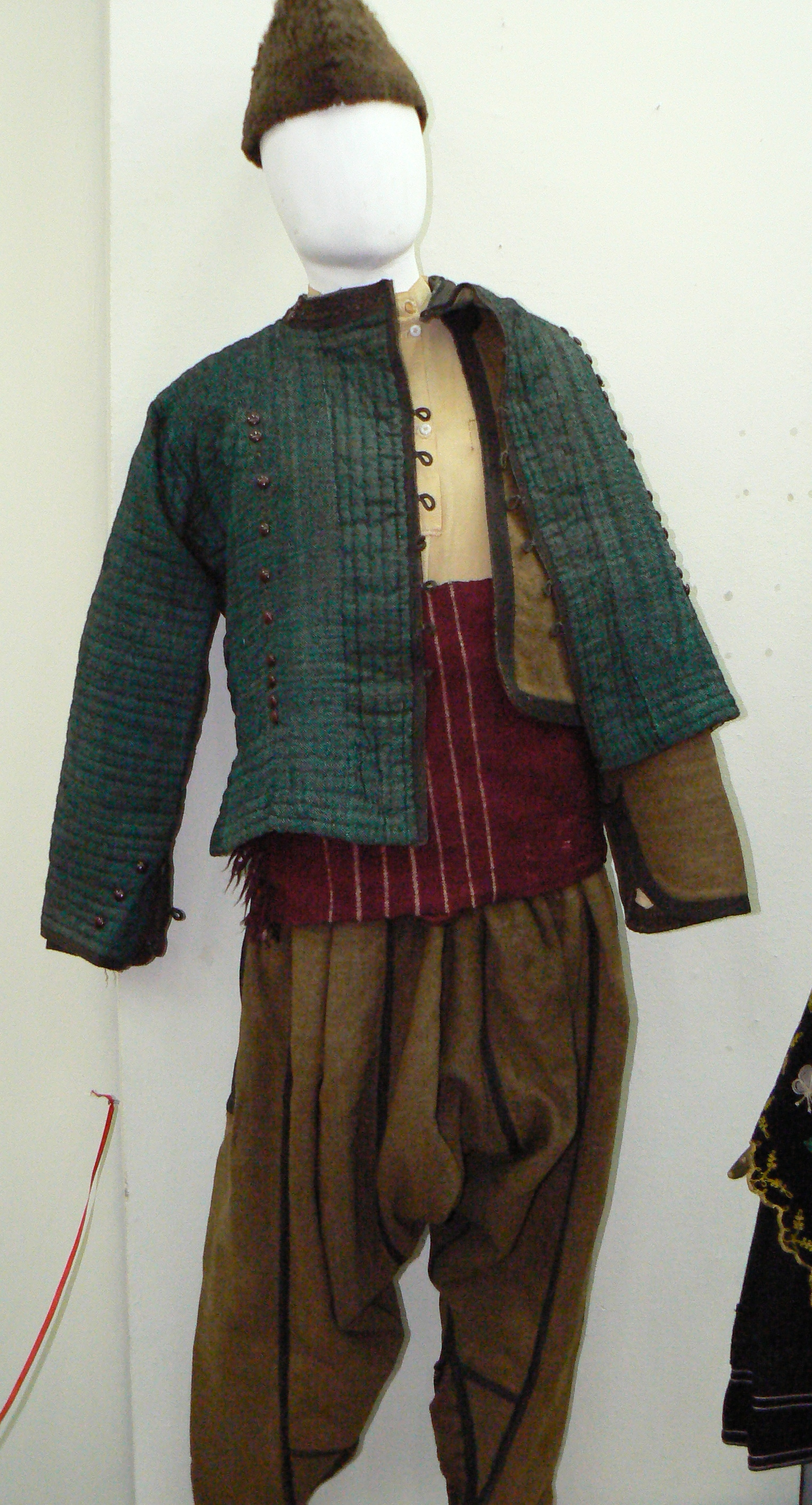 Bulgarian male folk costume, exhibit of the National Ethnographic Museum (unknown region)